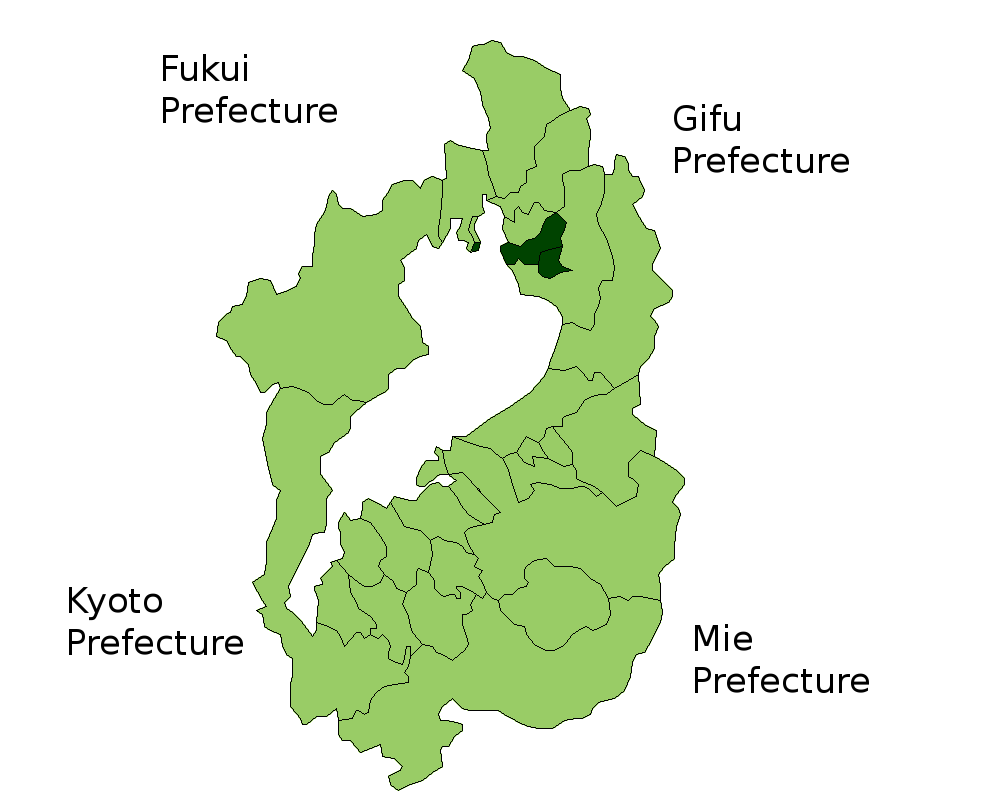 Location Map of Higashiazai District in Shiga Prefecture, Japan